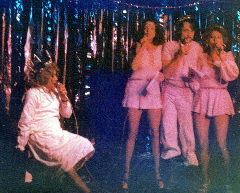 Arne "Bongo" Arvidsson (as "Sankta Bongita"), Agneta Lindén, Lars Jacob & Mia Adolphson in a Christmas cabaret Luciashow, as released by image creator Lars Jacob ProdPlace: Fattighuset, Döbelnsgatan 3, Stockholm, Sweden